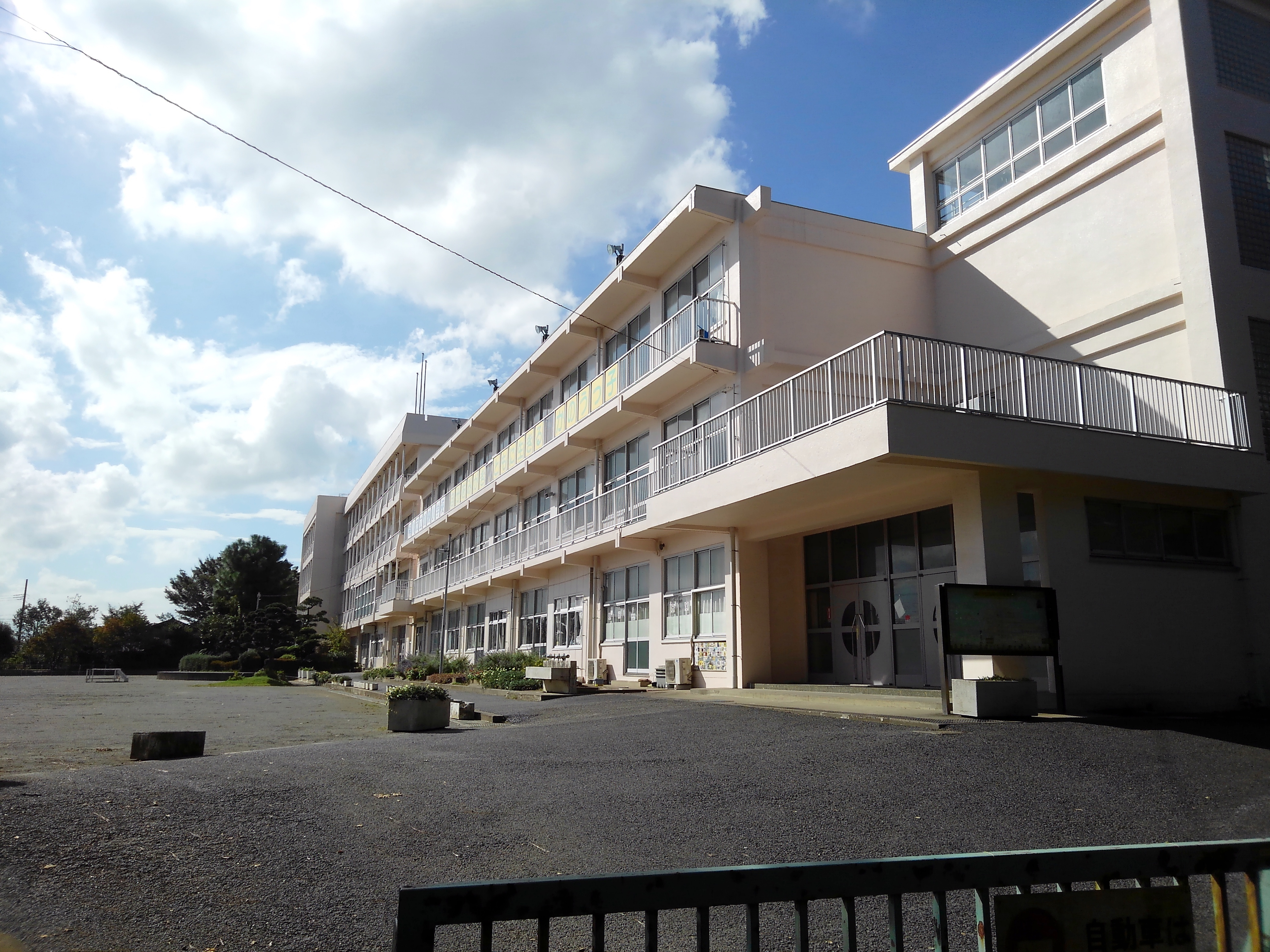 Okegawa Municipal Kanō Elementary School in Okegawa, Saitama, Japan. Viewed from the main entrance.